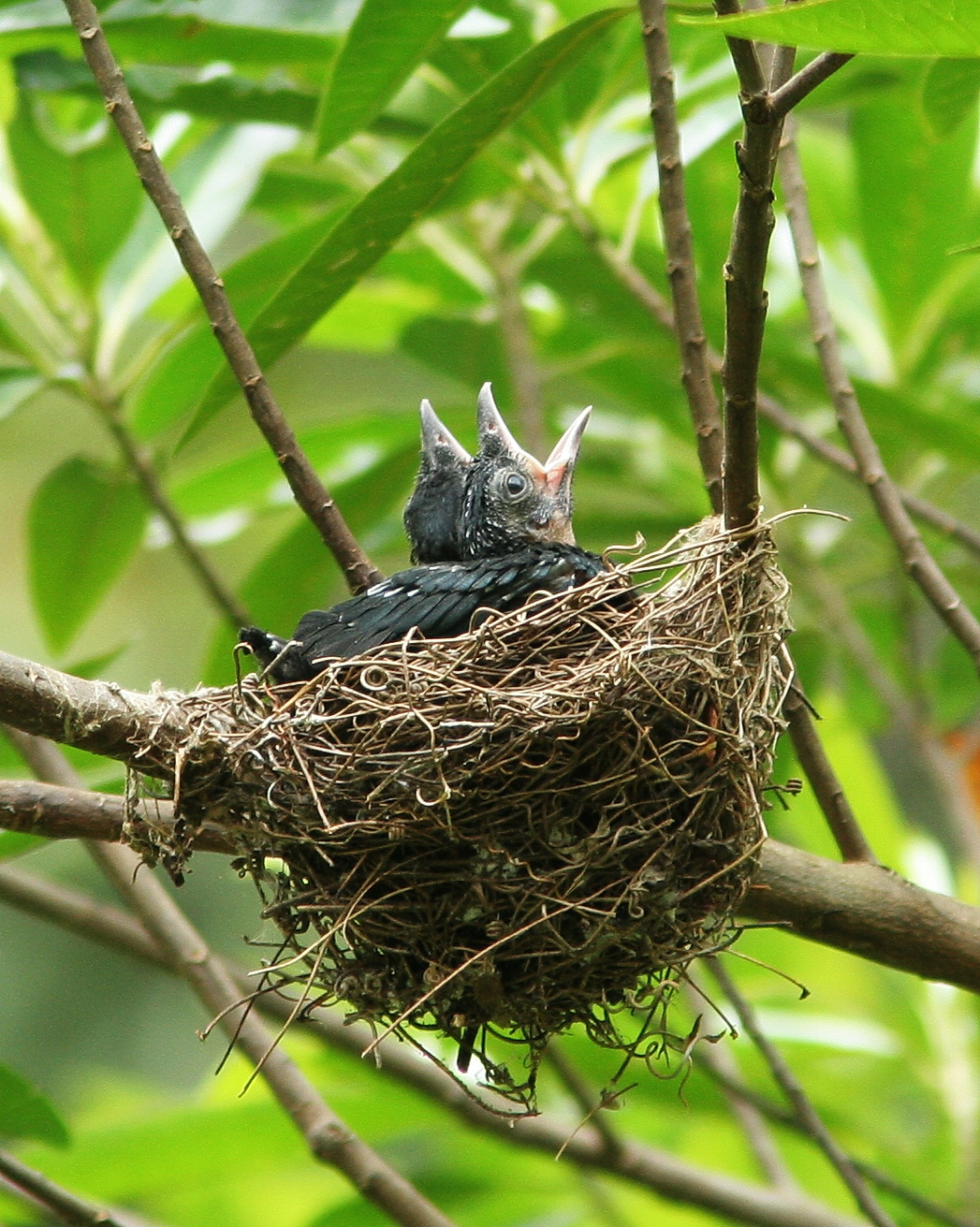 Spangled Drongo, Dicrurus bracteatus; wild bird